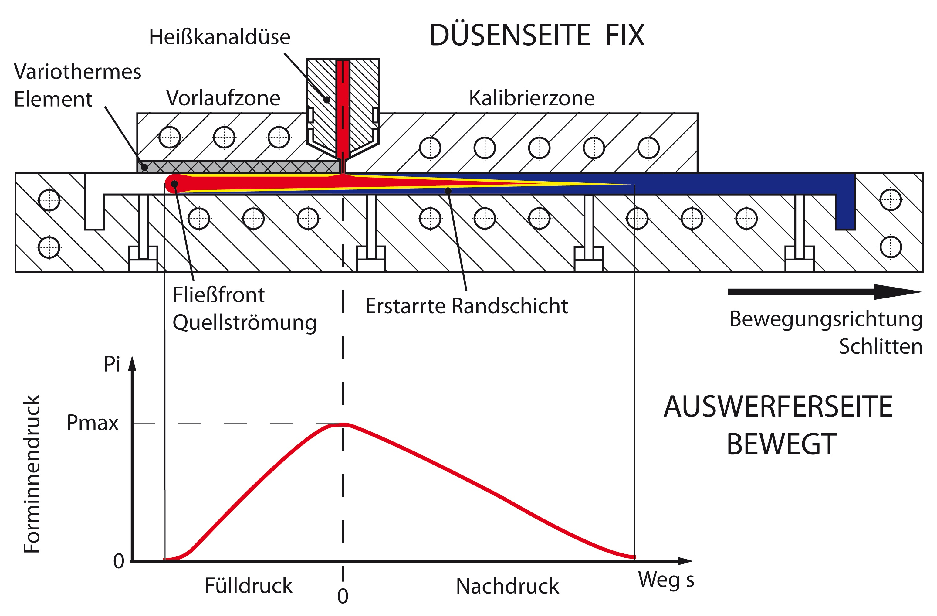 Schematical figure of the pressure profile inside an Exjection mould during the quasi-stationary filing stage.